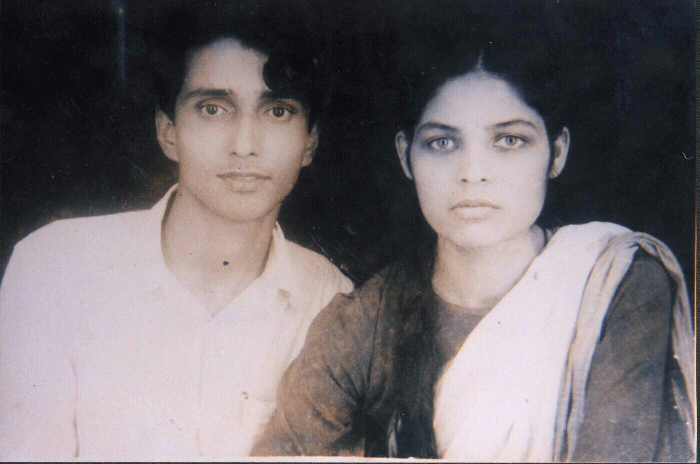 Kabi Dilwar seen here with his first wife Anisa Khatun.